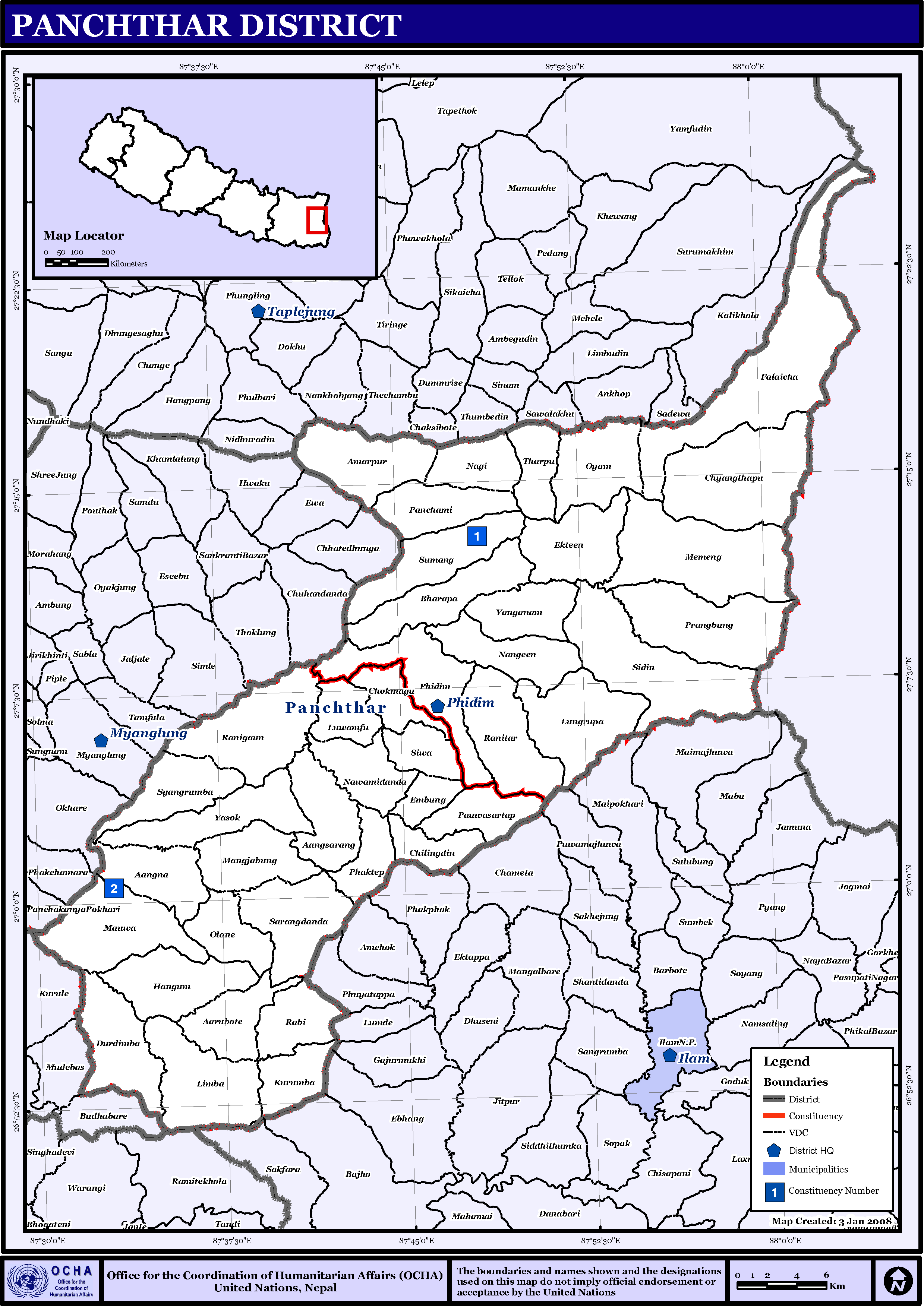 Map displaying Village Development Committees in Panchthar District, Nepal